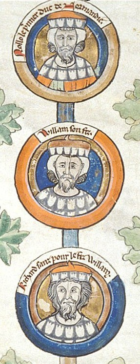 Rollo of Normandy, William I, Duke of Normandy and Richard I of Normandy